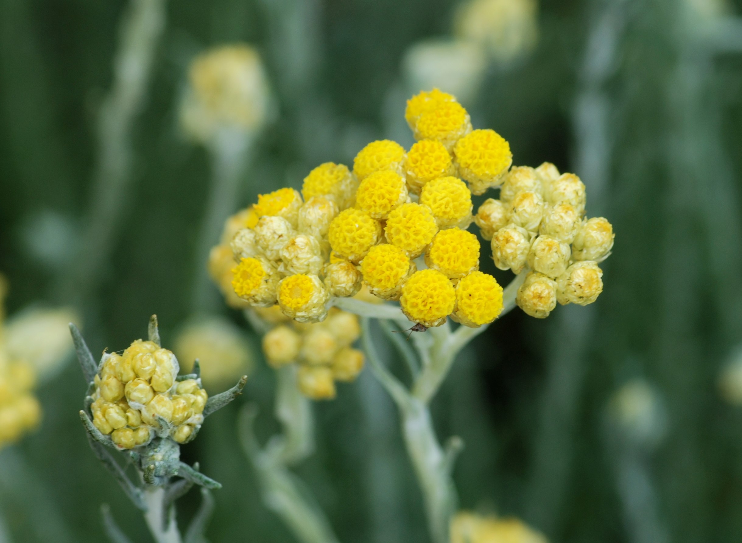 Helichrysum stoechas